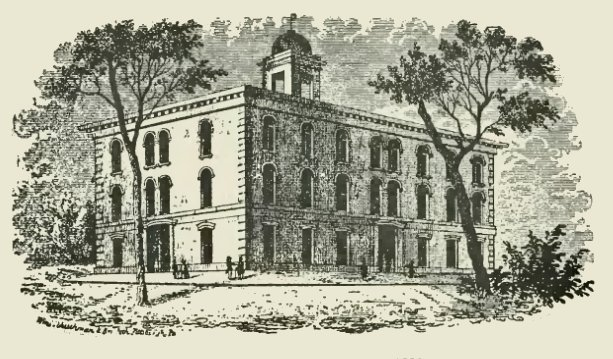 Illustration in History of Iowa From the Earliest Times to the Beginning of the Twentieth Century